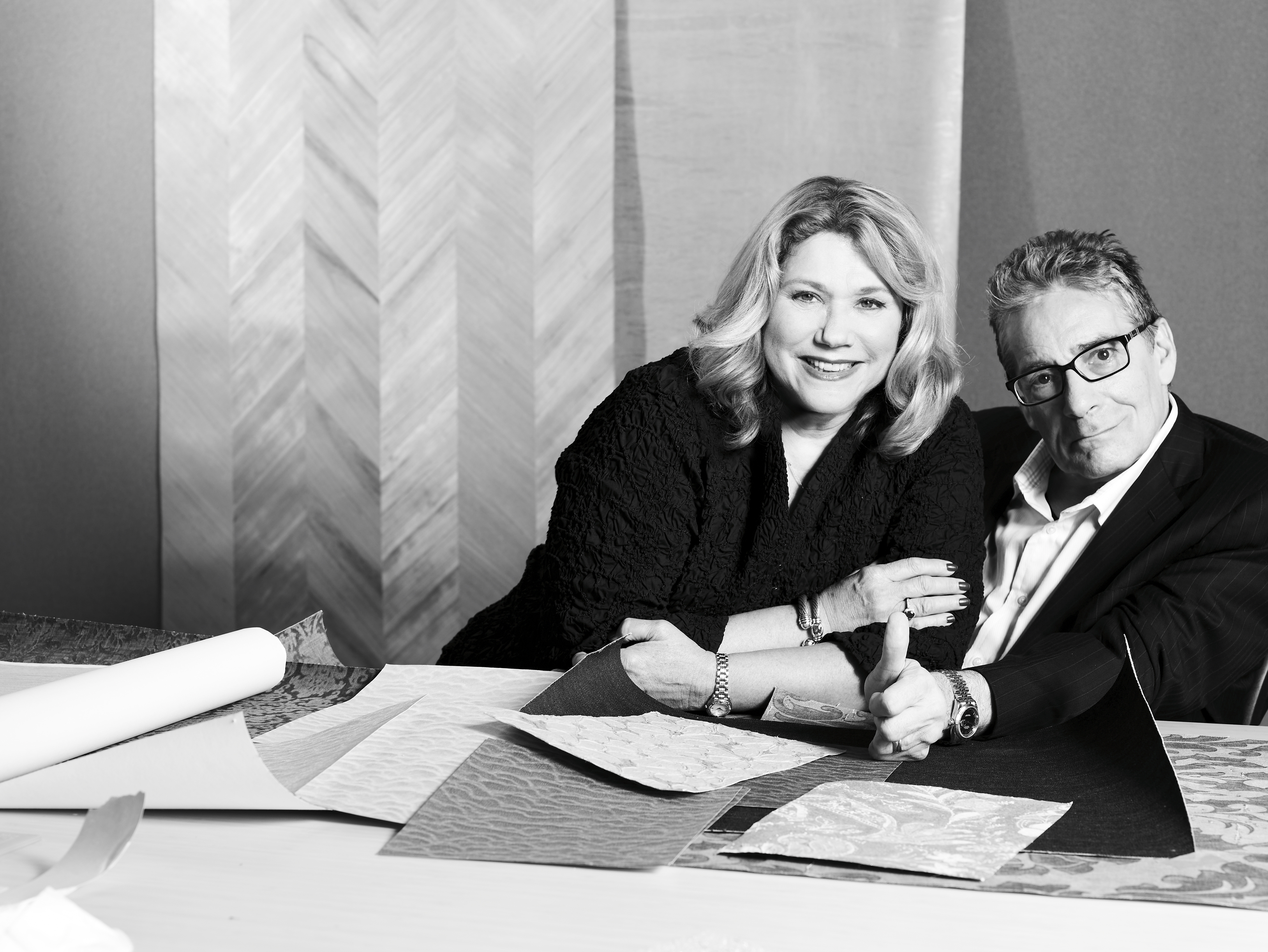 Joyce, President, and Maya, Chairman & Chief Creative Office, of Maya Romanoff Corportion